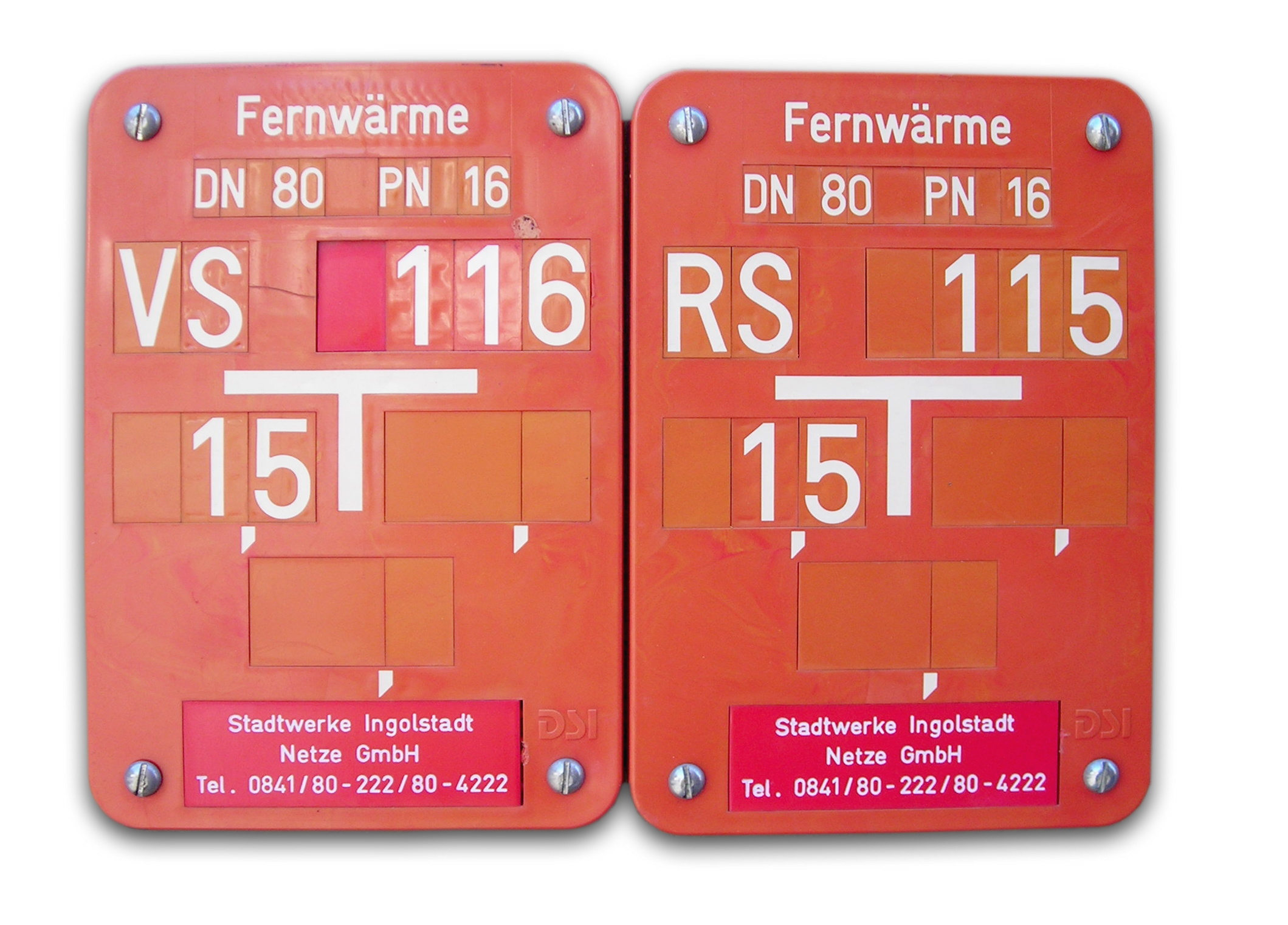 signs to locate shut-off valves to a district heating pipeline in germany. The valves are located 1.5 meters left from the signs. They also show the type (VS: supply, RS: return), dimension (DN: Diameter Nominal in Millimeters) and pressure (PN: Pressure Nominal in bar) of the pipeline itself.